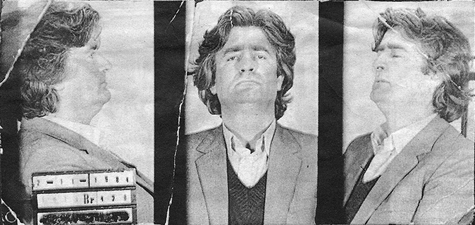 "File picture from Bosnian police records show Radovan Karadzic, now ill-famous (sic) Bosnian Serb leader and indicted war criminal, when he was arrested for industrial crimes in November 1984. This photo was recovered in 1992 from a Sarajevo trash bin by Metro photographer Rikard Larma."